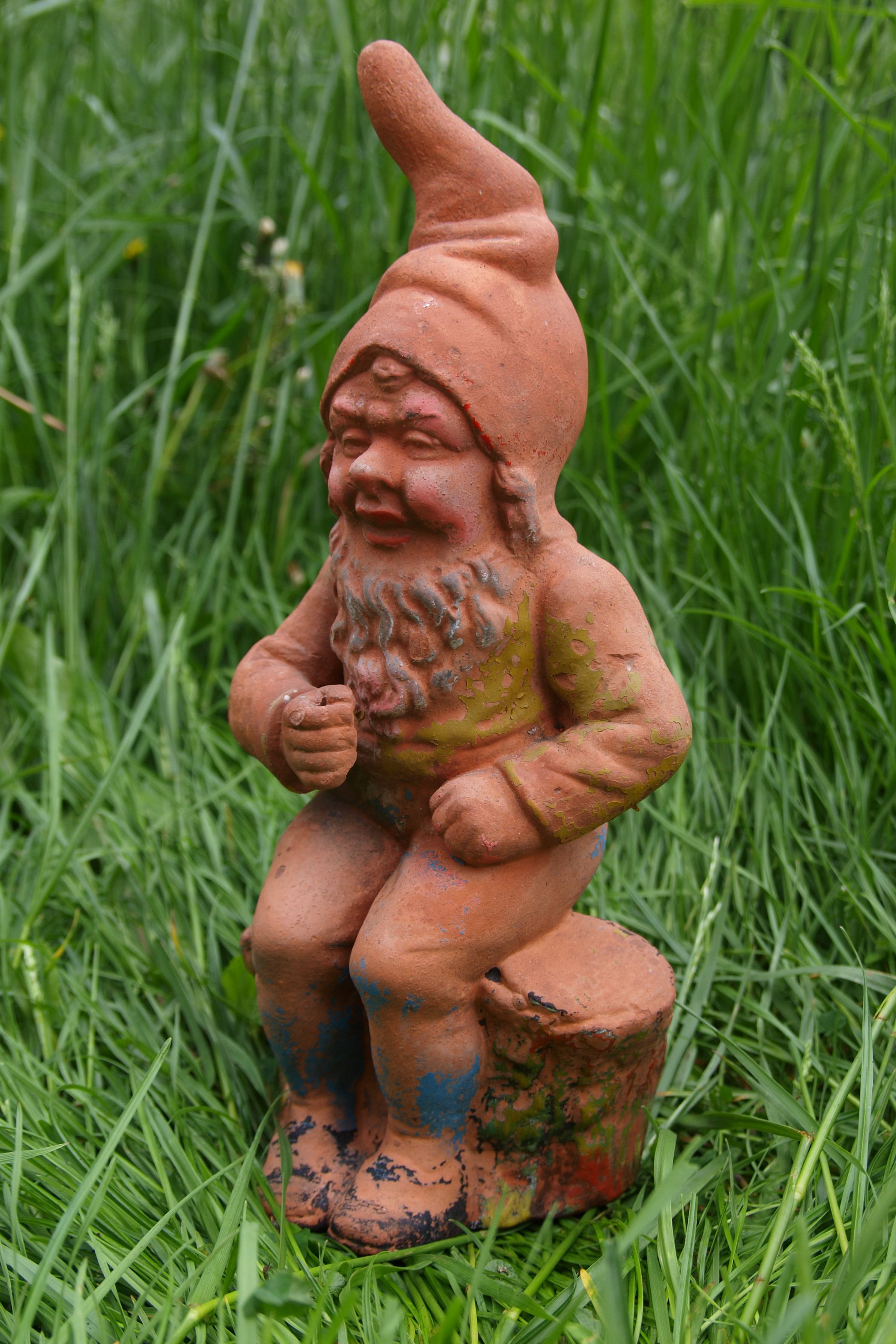 Traditional German garden dwarf (garden gnome) made of clay with heavily weathered painting. Originally holding a smoking pipe, a fishing rod or a flower in his right hand. Probably manufactured in the first half of the 20th century in Gräfenrode, Thuringia, Germany Height: 320 mm (12.6 in).